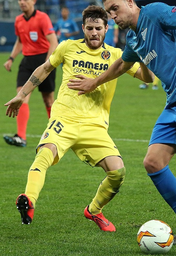 Miguelón with Villareal CF in an Europa League game against FC Zenit Saint Petersburg.